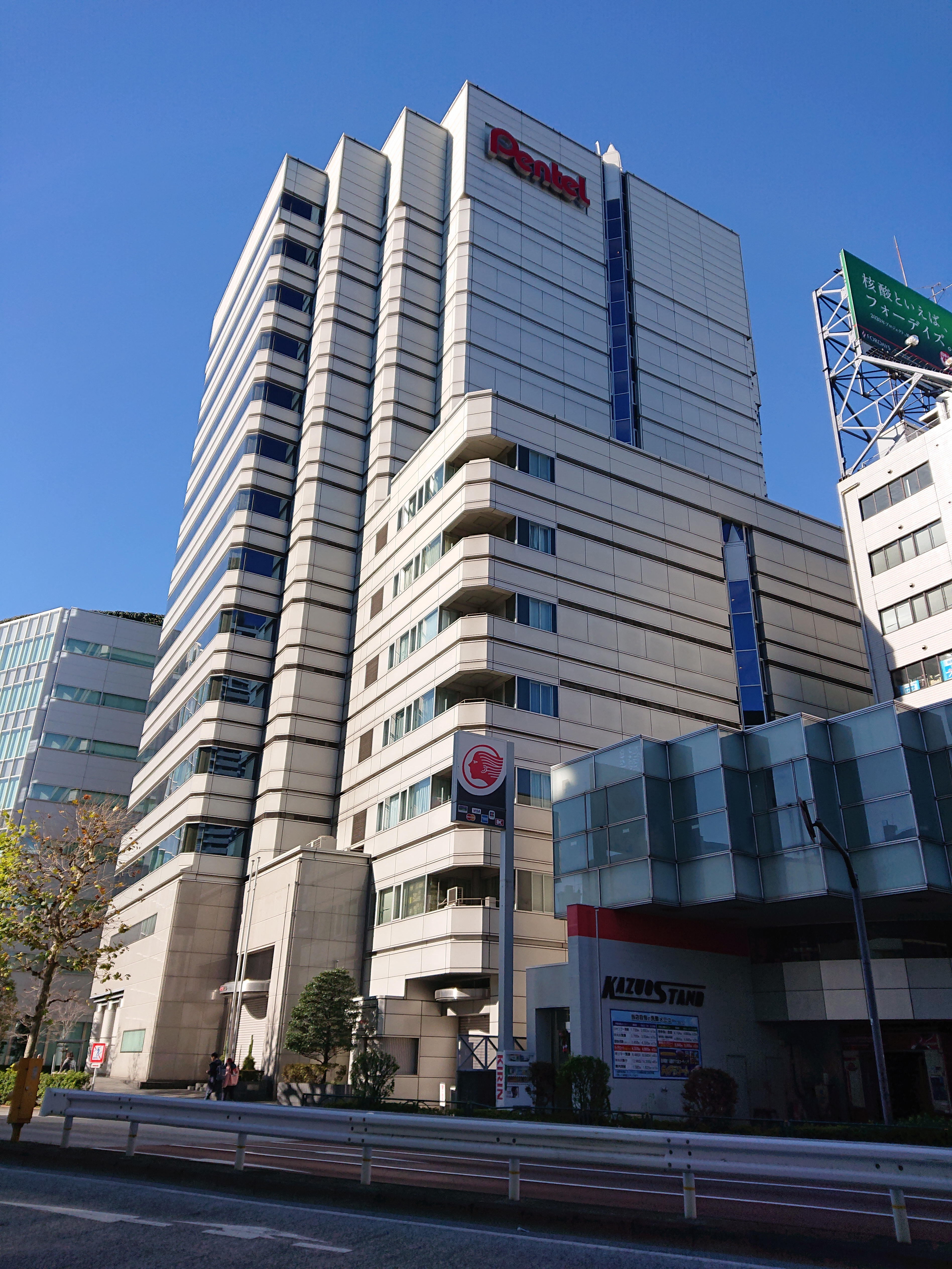 Pentel Building, located at 7-2 Nihonbashi-Koamicho, Chuo, Tokyo, Japan